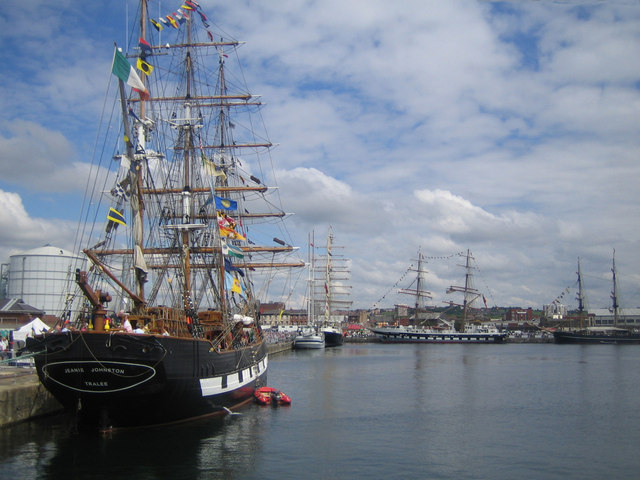 Liverpool: Wellington Dock and the Tall Ships